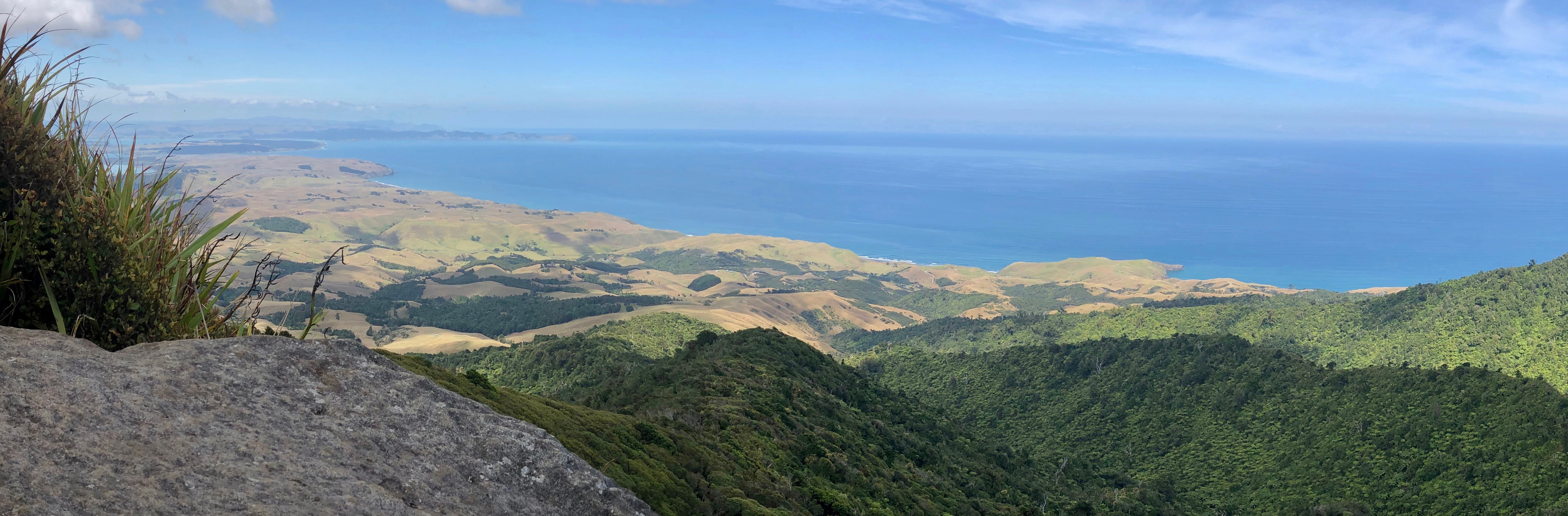 Ruapuke has no defined boundaries